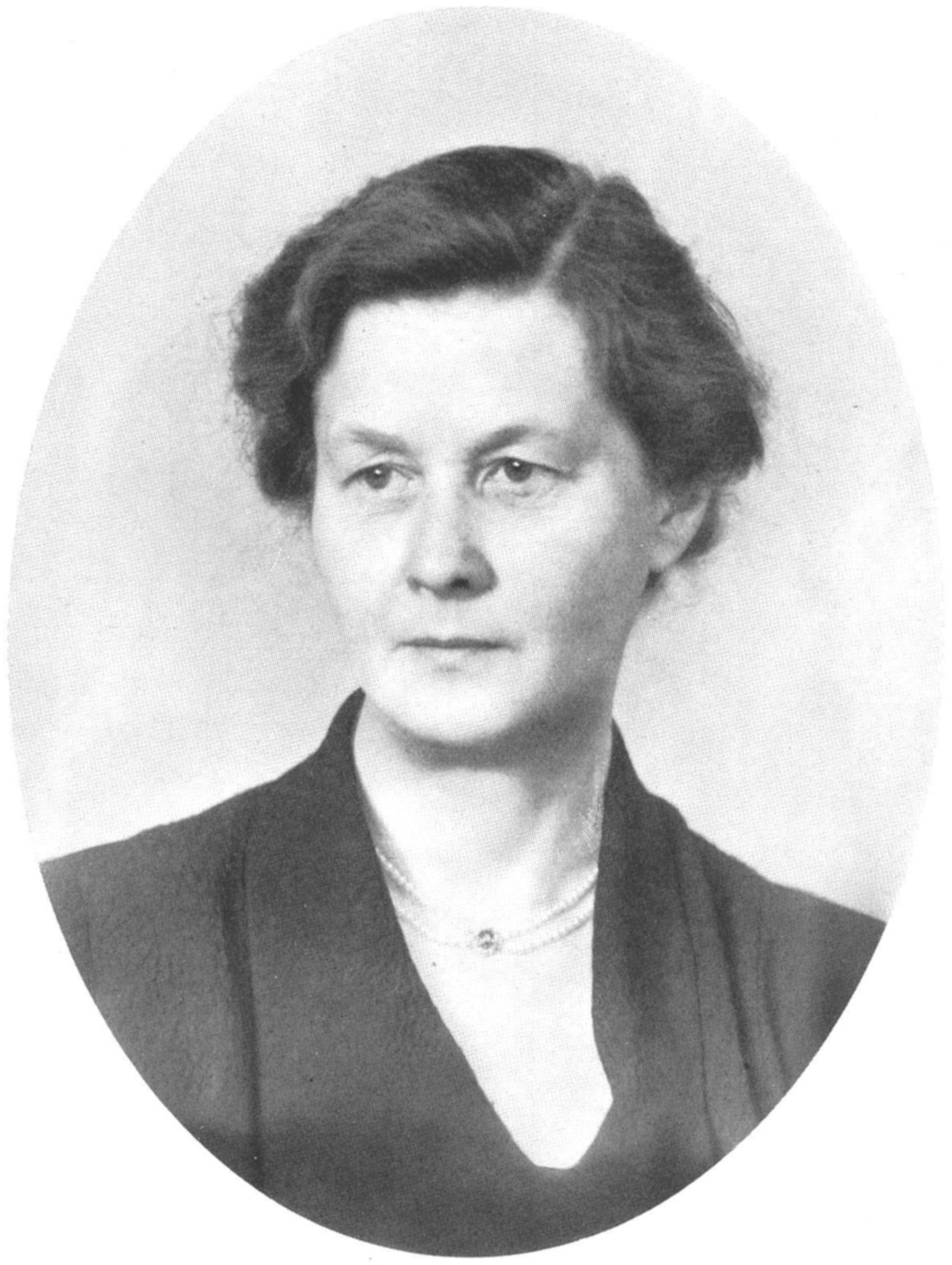 Ellen Tiselius, wife of Karl Edvard Tiselius, county governor of Östergötland County, Sweden. Portrait from a 1937 catalog.